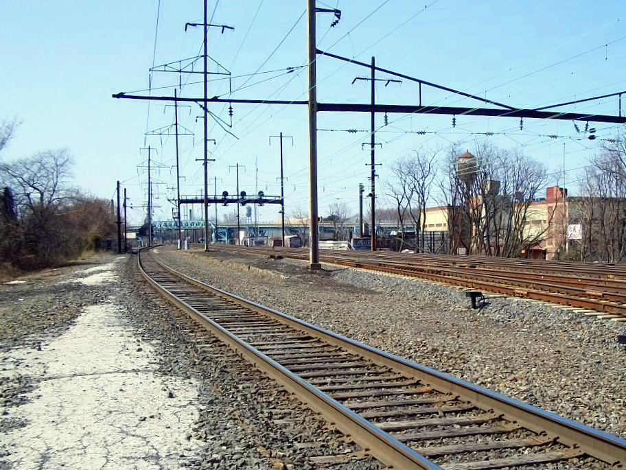 Remains of the former Frankford Junction station, closed in October 1992, photographed in 2010. The island platform remains are visible between the tracks in the upper left.